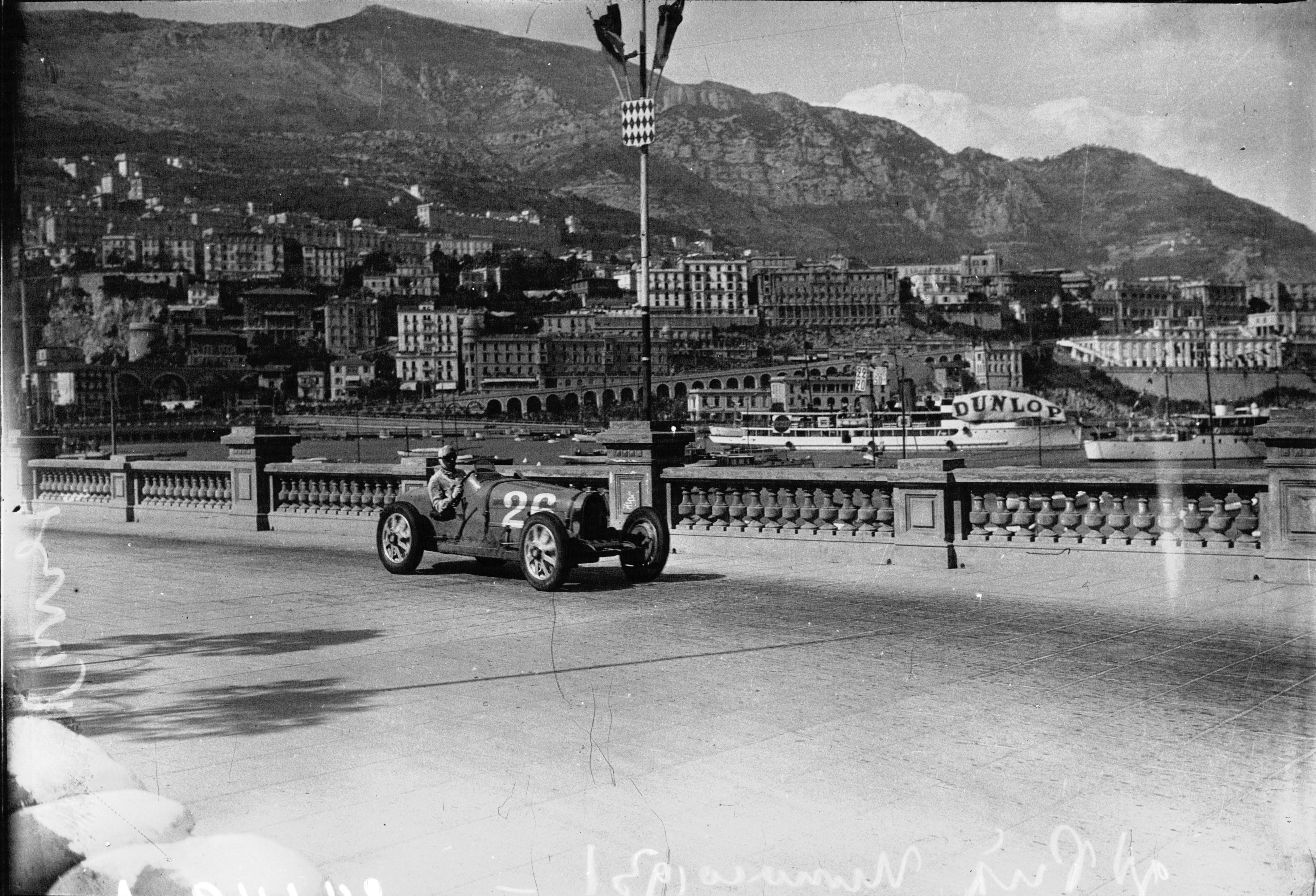 Achille Varzi at the 1931 Monaco Grand Prix with Bugatti T51